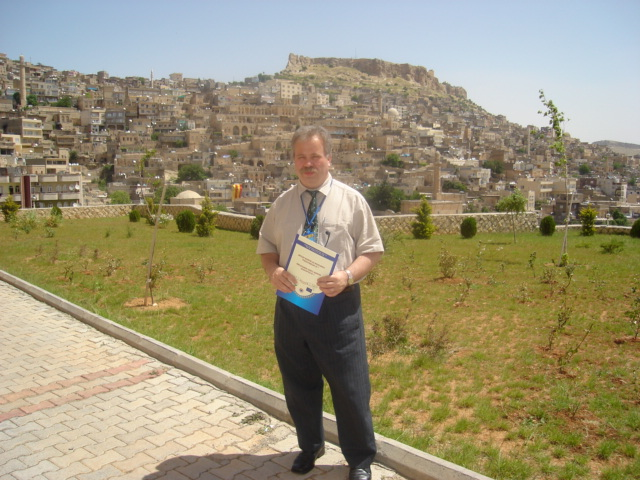 Photo of the Romanian scholar and professor George Grigore